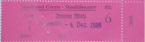 ticket